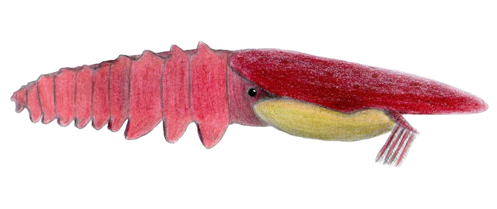 Restauration of Aegirocassis